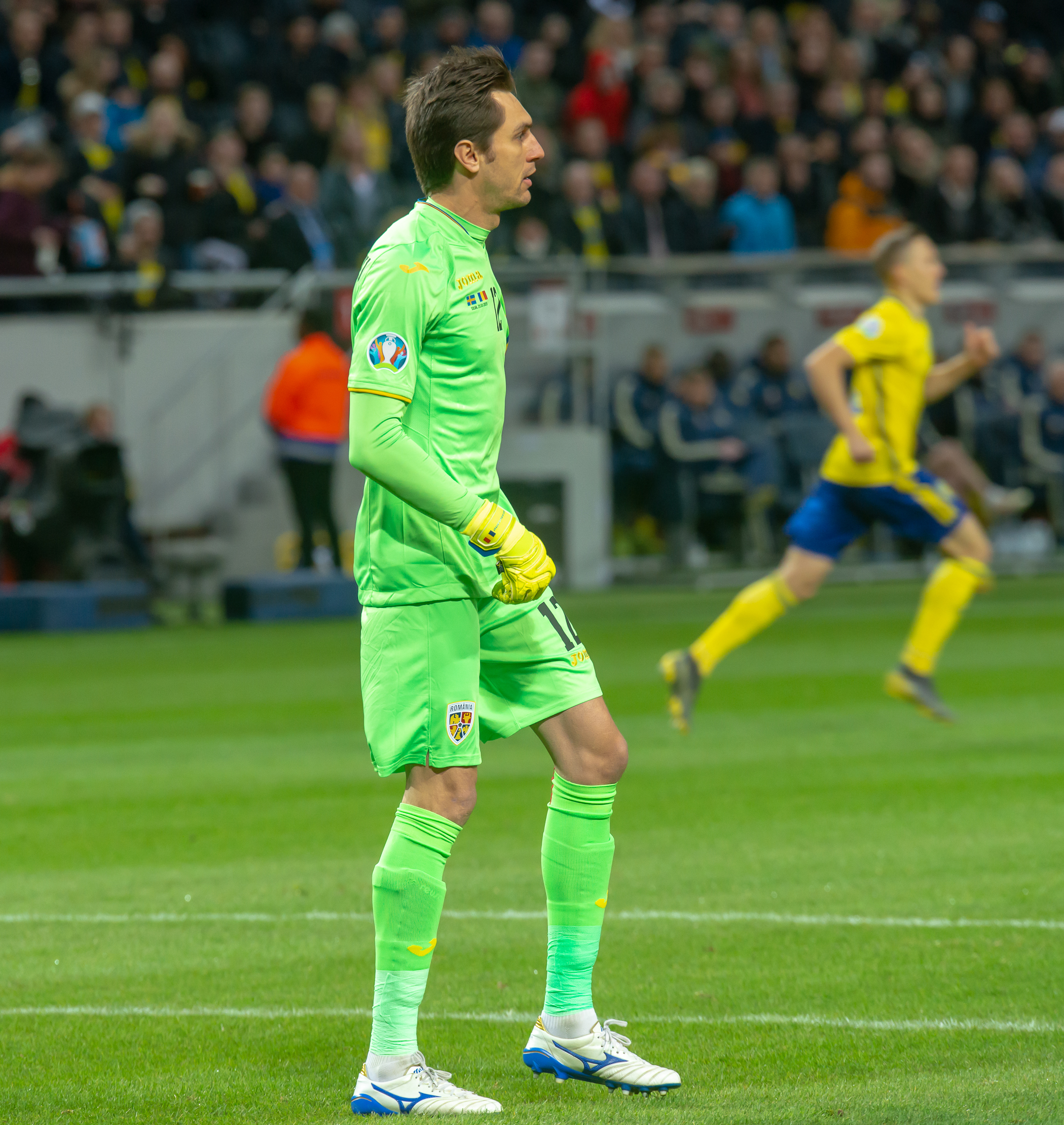 UEFA EURO qualifiers Sweden vs Romaina 20190323